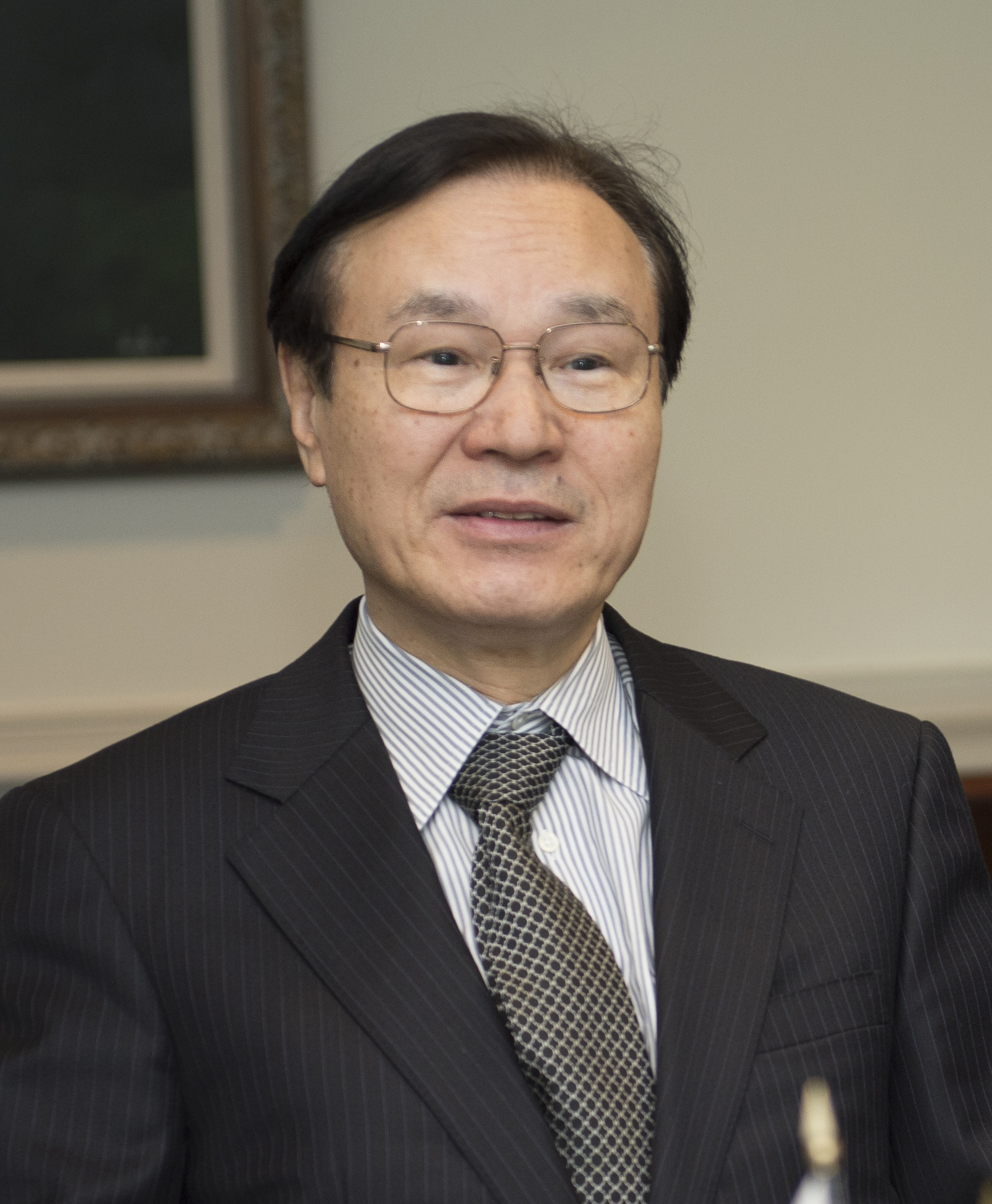 Japanese National Security Advisor Shotaro Yachi meets with US Secretary of Defense Chuck Hagel (not shown) at the Pentagon, Jan. 17, 2014.